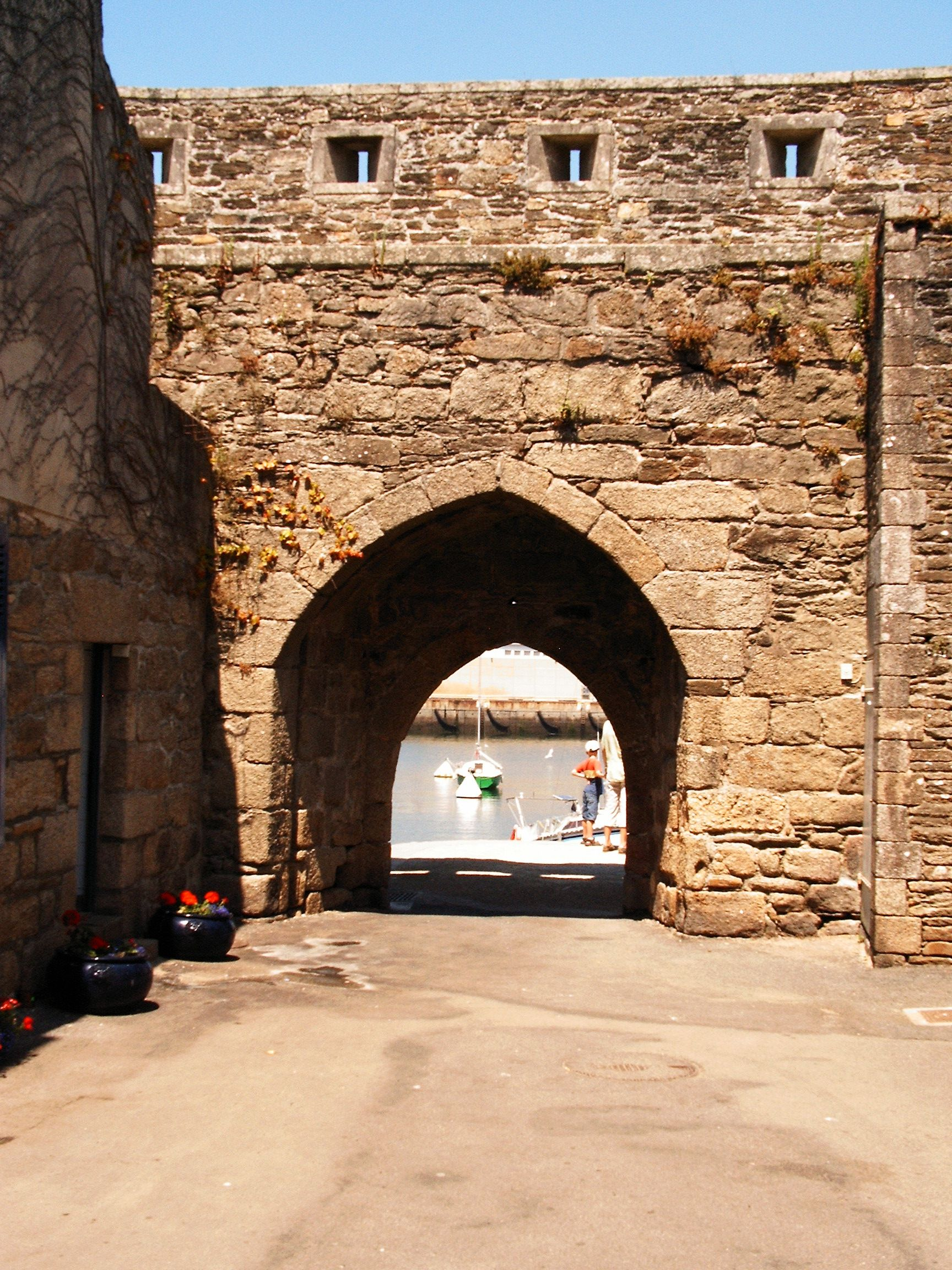 The "Porte aux vins" ("Gate of wine") inside the Ville Close, Concarneau, Finistère, Brittany, France